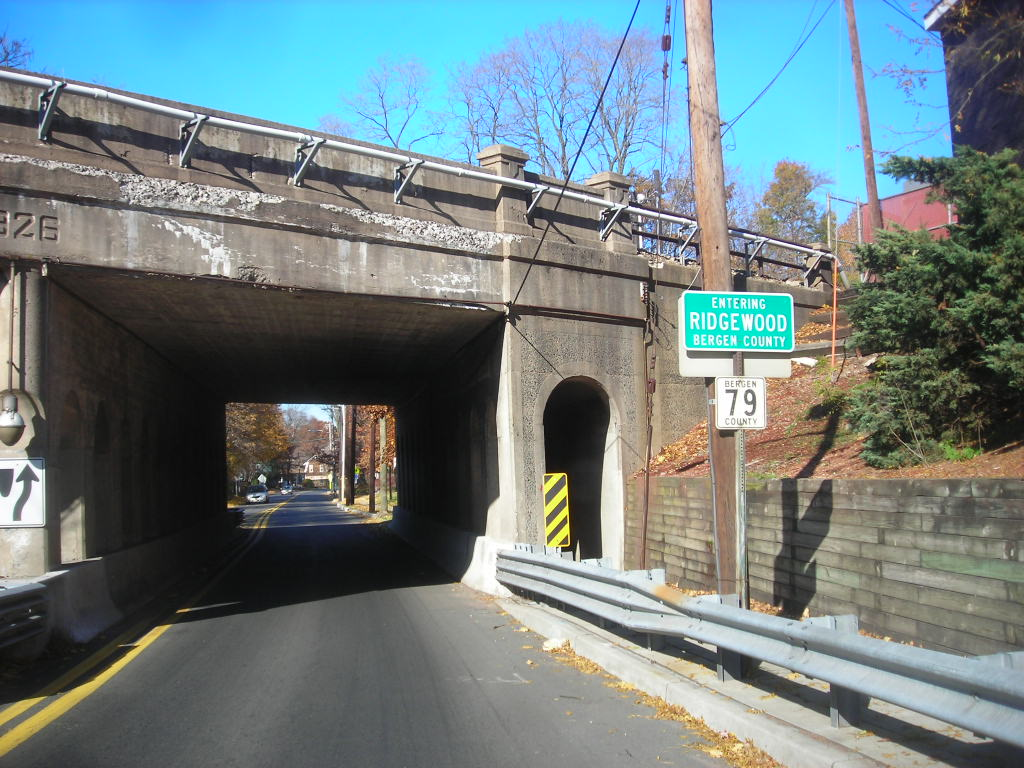 Entering Ridgewood, New Jersey along Ackerman Avenue